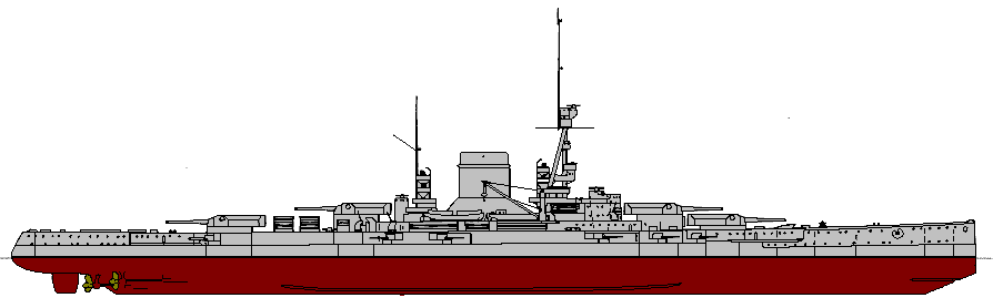 Line drawing of the German battlecruiser Yorck replacement